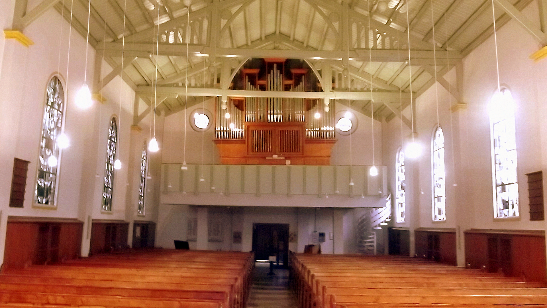 Interior of the protestant church in Altenwald, Saarland, Germany